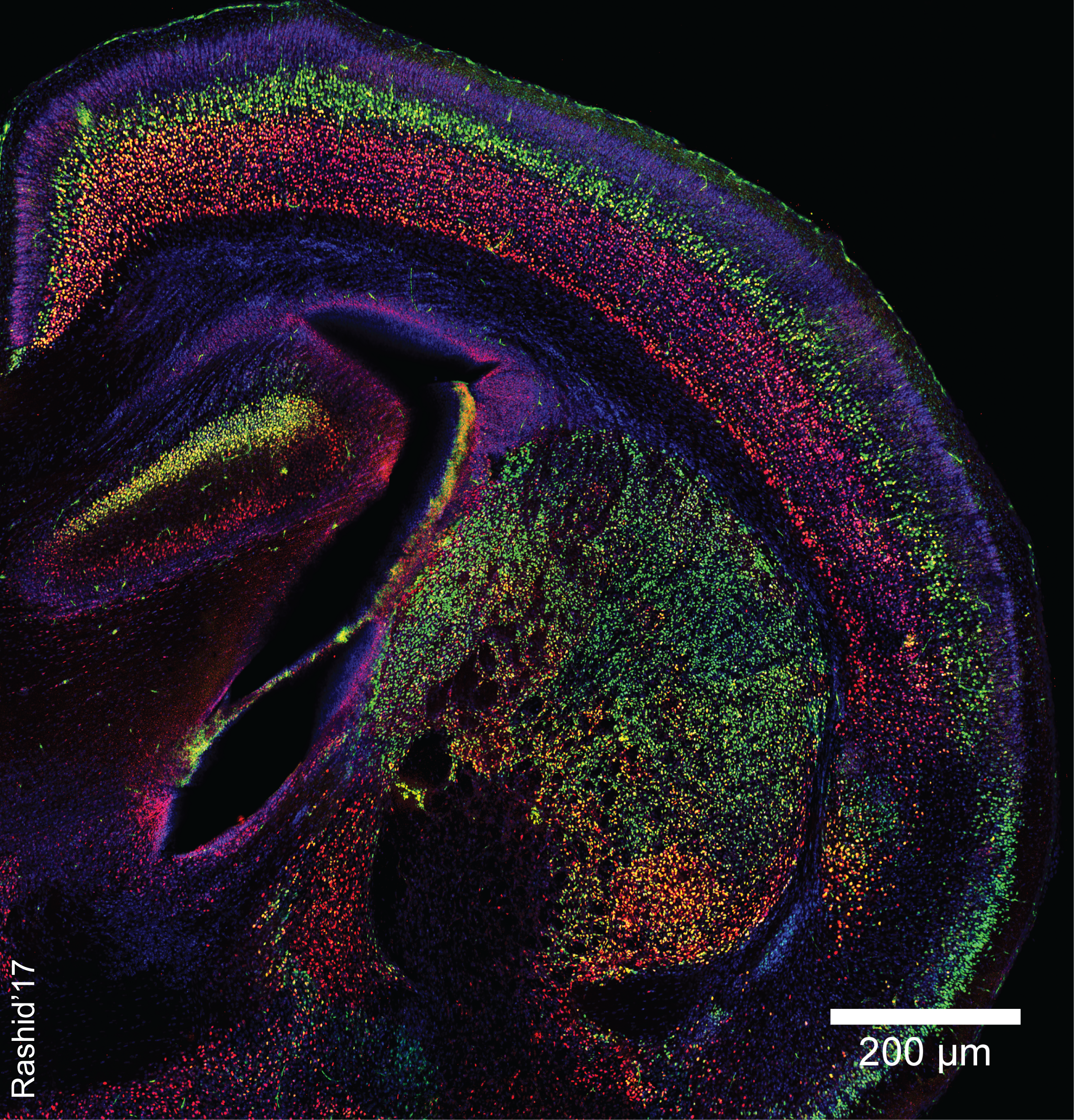 A cross section of a mouse brain stained with cortical layer specific proteins named Tle4 (Red) and Ctip2 (Green). Image was taken by LSM 780 confocal microscope at SUNY Upstate Medical University